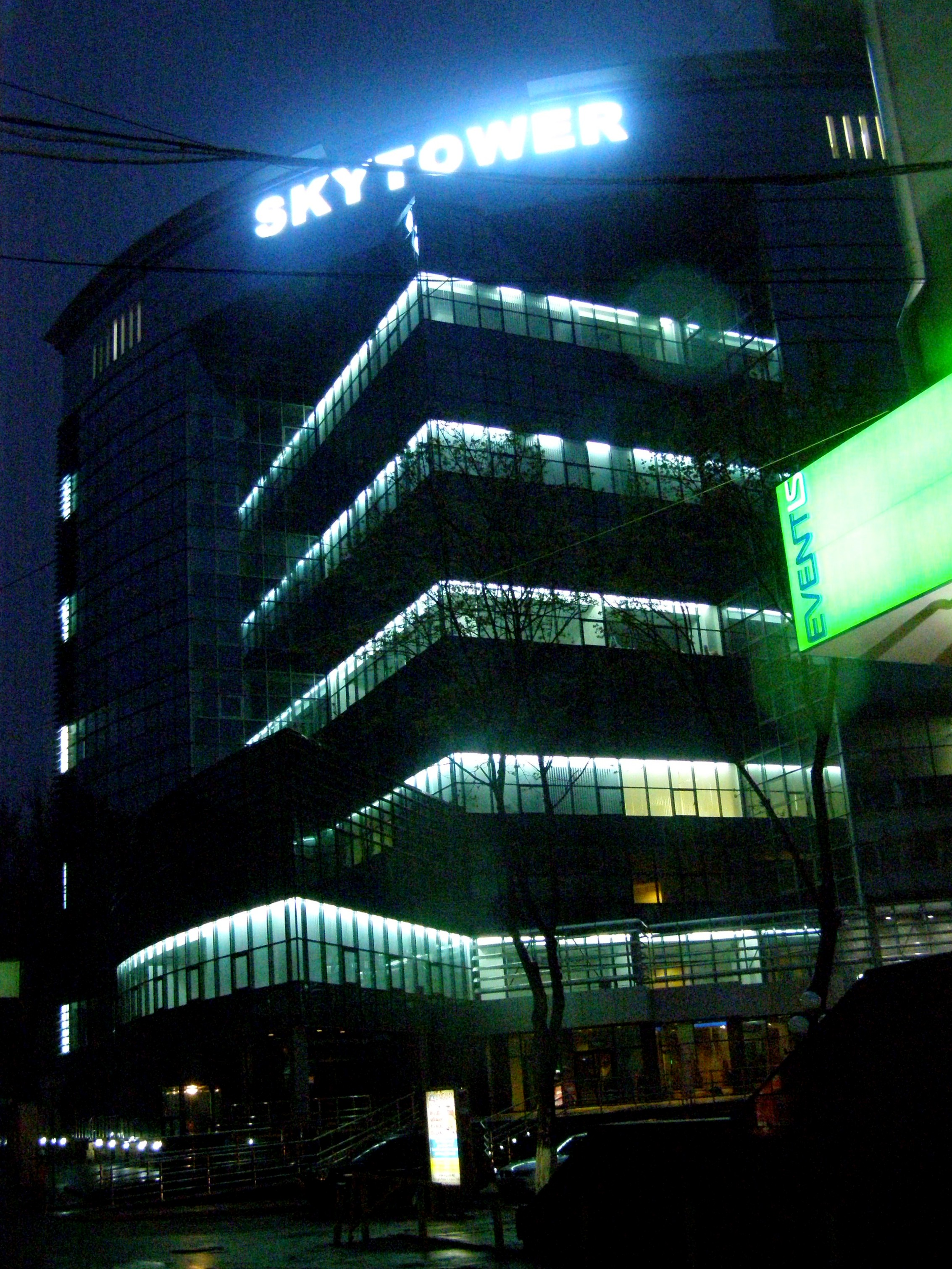 International Business Centre SKYTOWER, in Chisinau, Moldova